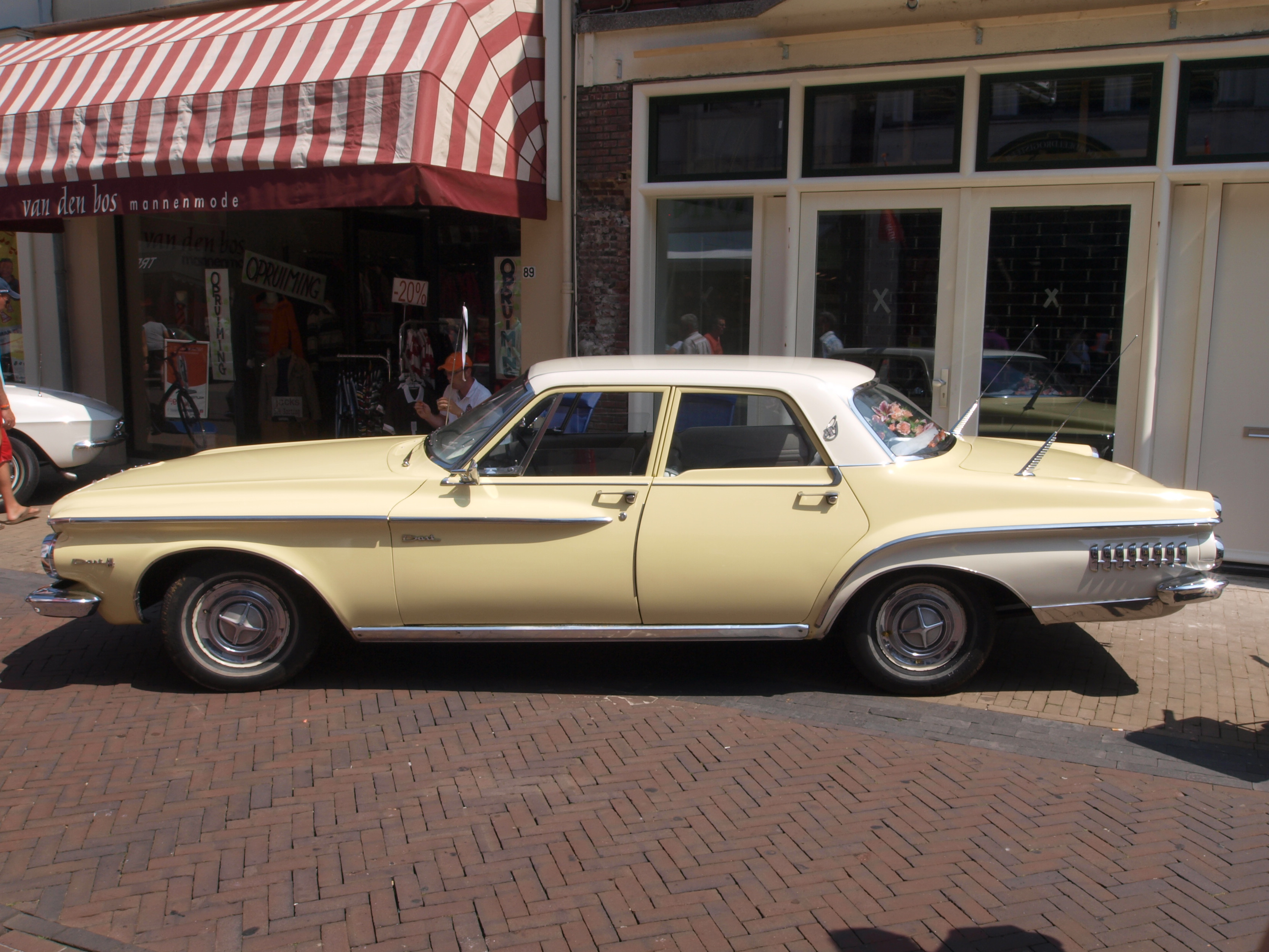 Photographed at Kampen, The Netherlands.